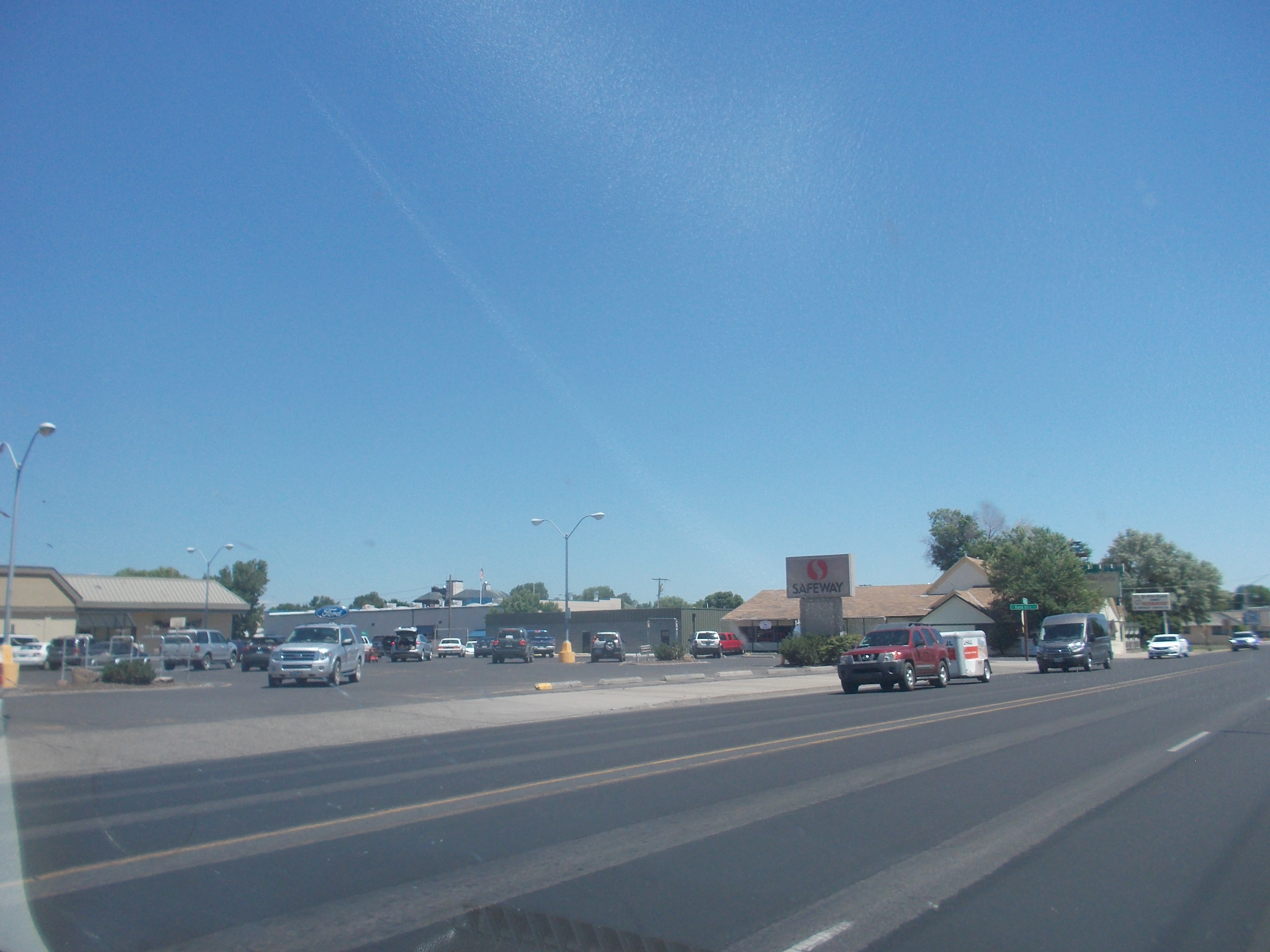 Burns, Oregon – This was the Safeway where occupants gathered before the takeover of the Malheur Wildlife Refuge